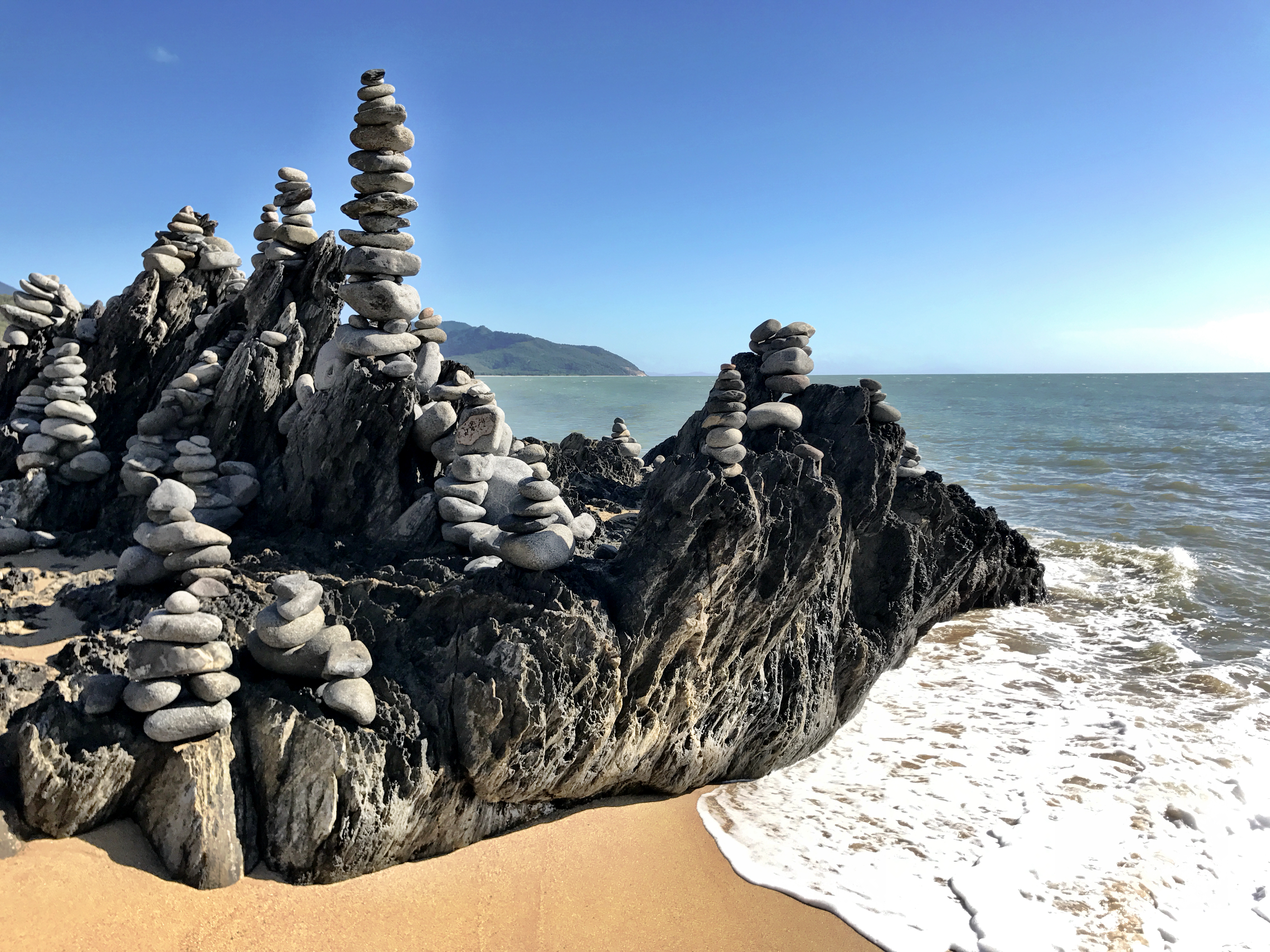 A scene from Wangetti Beach